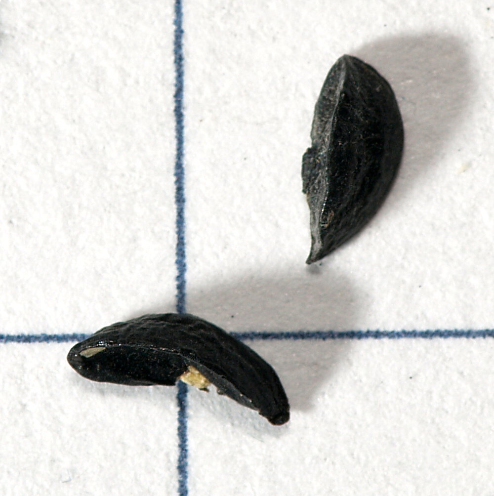 seeds of Allium schoenoprasum. Squares have a length of 5 mm.